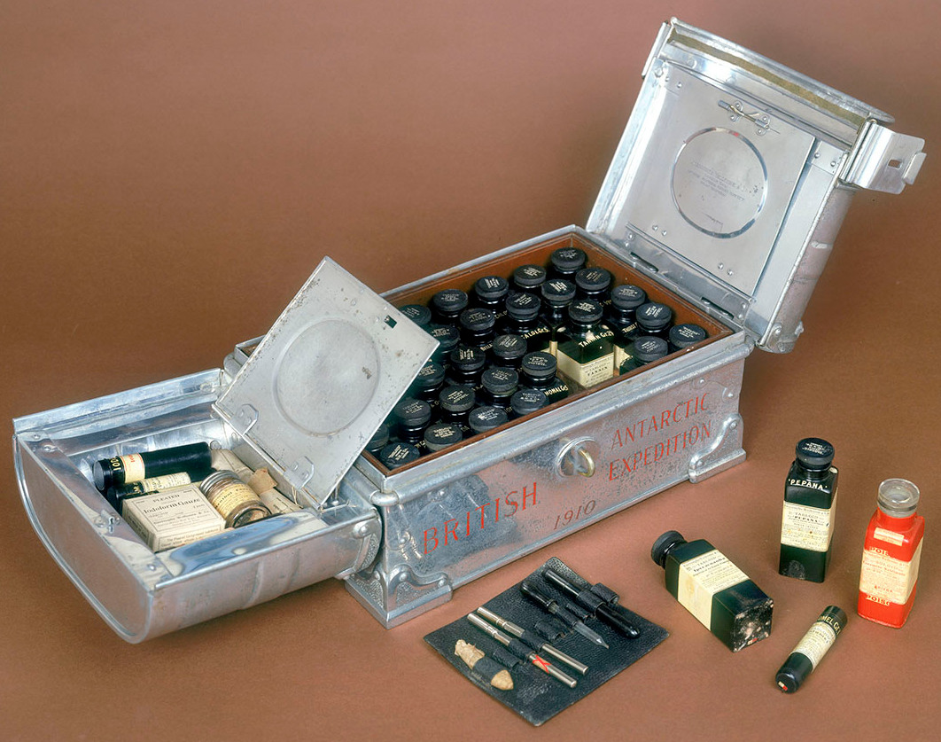 Made by Burroughs Wellcome & Co, this chest was used by Scott on the first part of his Antarctic expedition. Being of lighweight metal construction, airtight and waterproof, cases such of this were used by various explorers from the 1880s onwards, including Stanley, Amundsen and Nansen. Captain Robert Falcon Scott (1868-1912) left the East India Docks, London on 1st June 1910 in the 'Terra Nova' bound for the South Pole, Antartica. Scott reached the South Pole on 17th January 1912, only to discover that the Norwegian expedition under Roald Amundsen had beaten them by a month. Delayed by blizzards, and running out of supplies, Scott and his team died at the end of March. Their bodies and diaries were found by a search party eight months later.